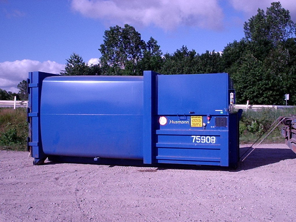 Comprimating container from Varig/Husmann. The front pointing towards the truck contains a press plate mechanism that push the waste into the large room in the rear. For emptying, the rear end will be opened